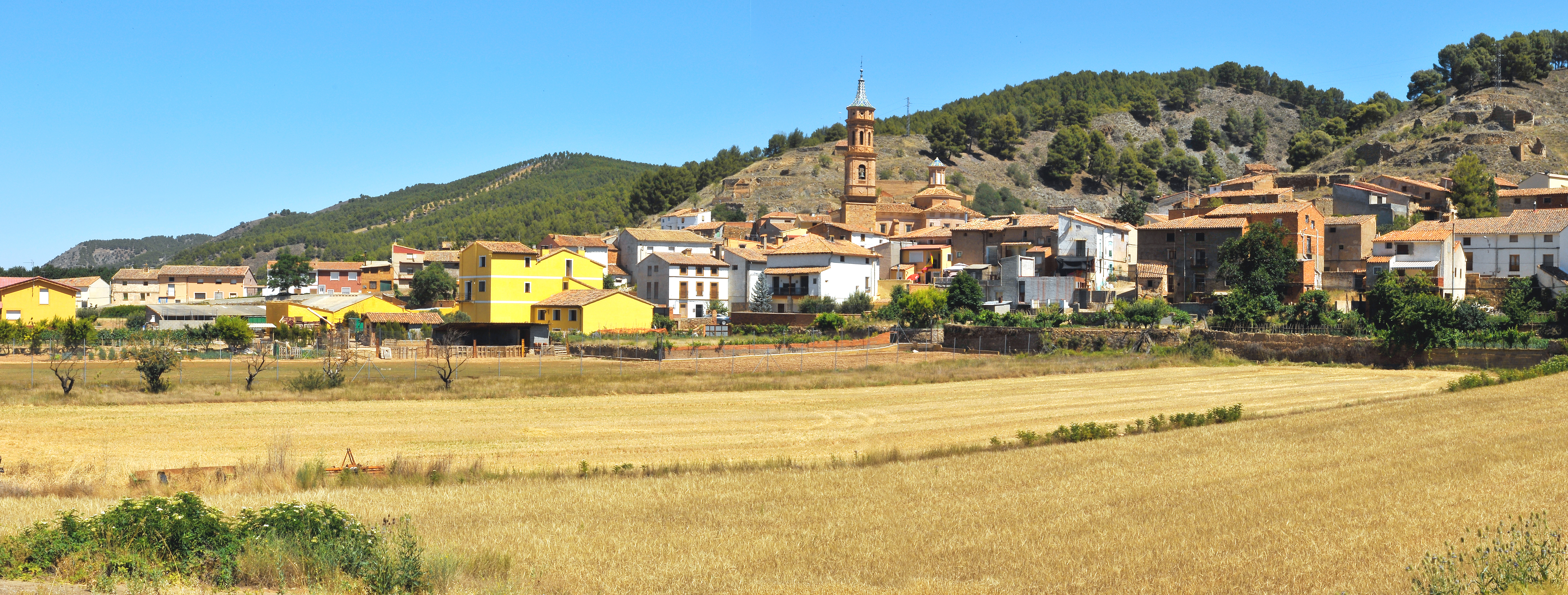 The village and its surroundings. Manchones, Zaragoza, Aragon, Spain